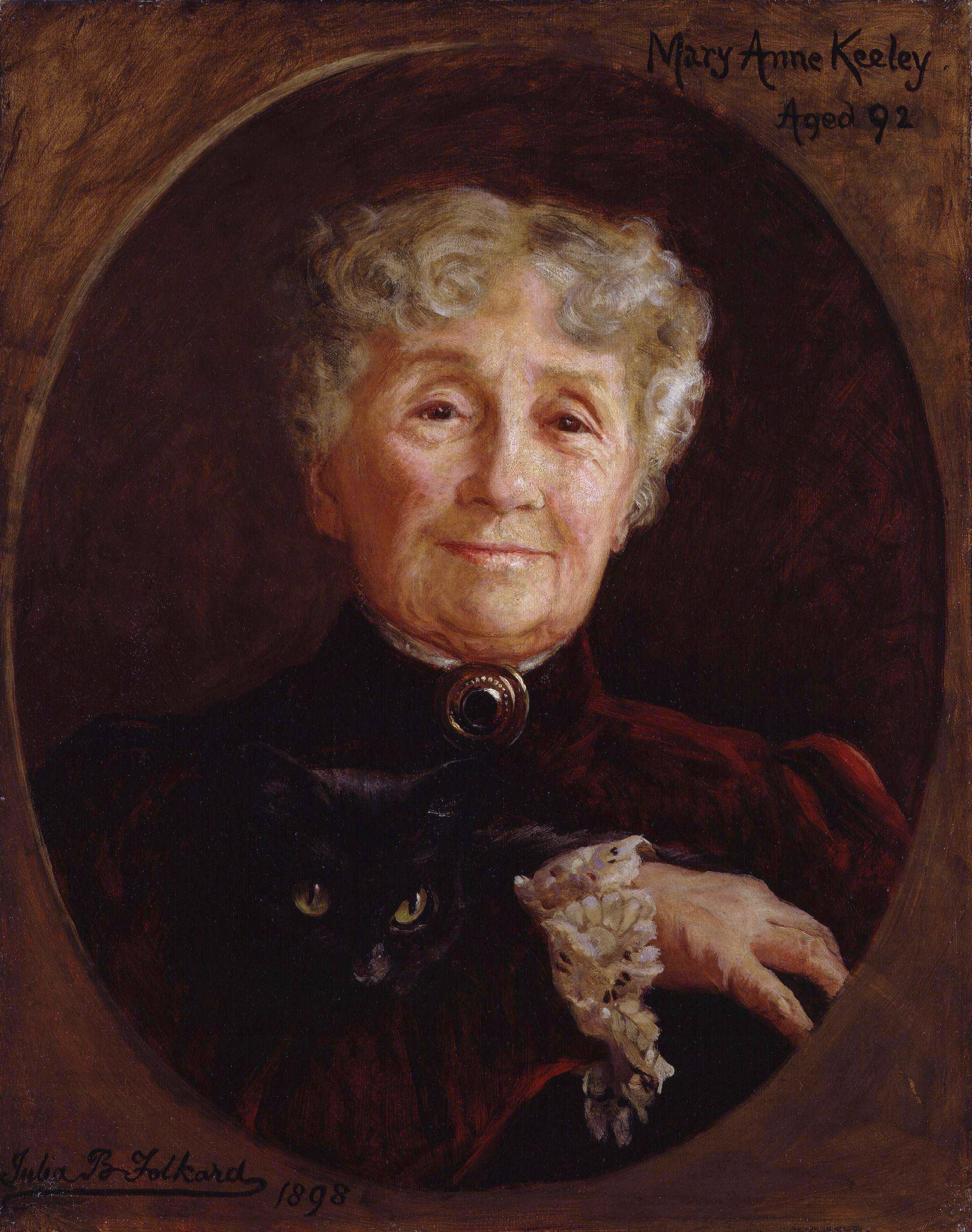 Mary Ann Keeley (née Goward), by Julia Bracewell Folkard (died 1933), given to the National Portrait Gallery, London in 1909. All images in this batch have been confirmed as author died before 1939 according to the official death date listed by the NPG.